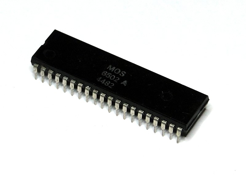 Microprocessor MOS 6502A